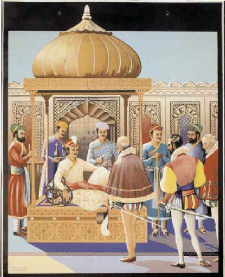 CAMERON, DONALD B SEE INDIA lithograph in colours, printed by Bolton Fine Art, Bombay, condition B+; and 'Budh Gaya' by W.S.Bylityilis 40 x 25in. (102 x 64cm.) (2)